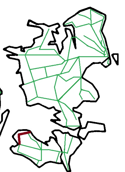 Map of railways on Zealand, Lolland and Falster in Denmark with the private railway Nakskov-Kragenæs Jernbane in brown.